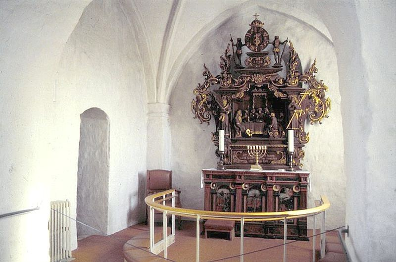 Bregninge Kirke (church) in Kalundborg Kommune. Altar by Lorentz Jørgensen (born before 1644, dead before 1681)